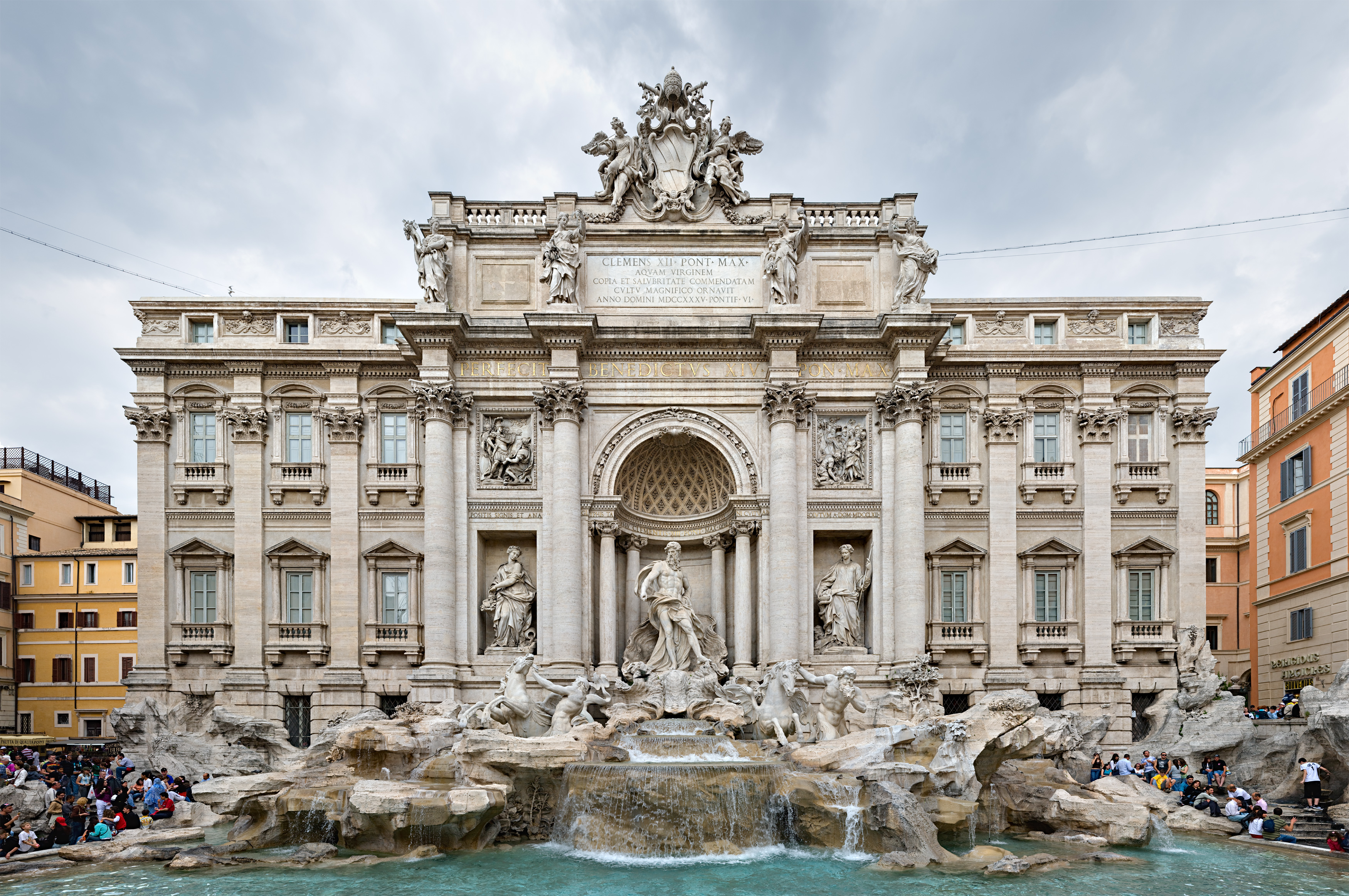 A 5x5 segment panorama taken by myself with a Canon 5D and 24-105mm f/4L IS lens. Stitched with rectilinear projection to keep lines straight. This view is about 100 degrees horizontally, close to the upper practical limit of rectilinear projection.